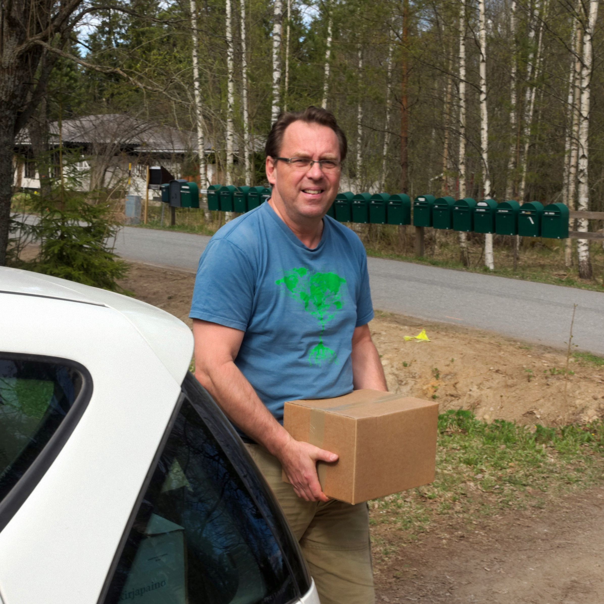 Finnish tour guide Markus Lehtipuu in 2017